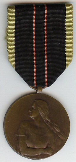 Medal of the Armed Resistance 1940-45 (Belgium)